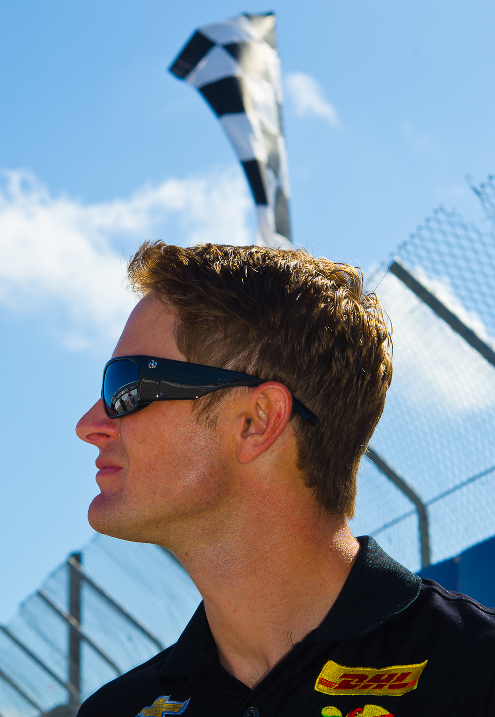 Ryan Hunter-Reay at the 2012 St. Petersburg Grand Prix. Round 1 of the 2012 IndyCar Series.